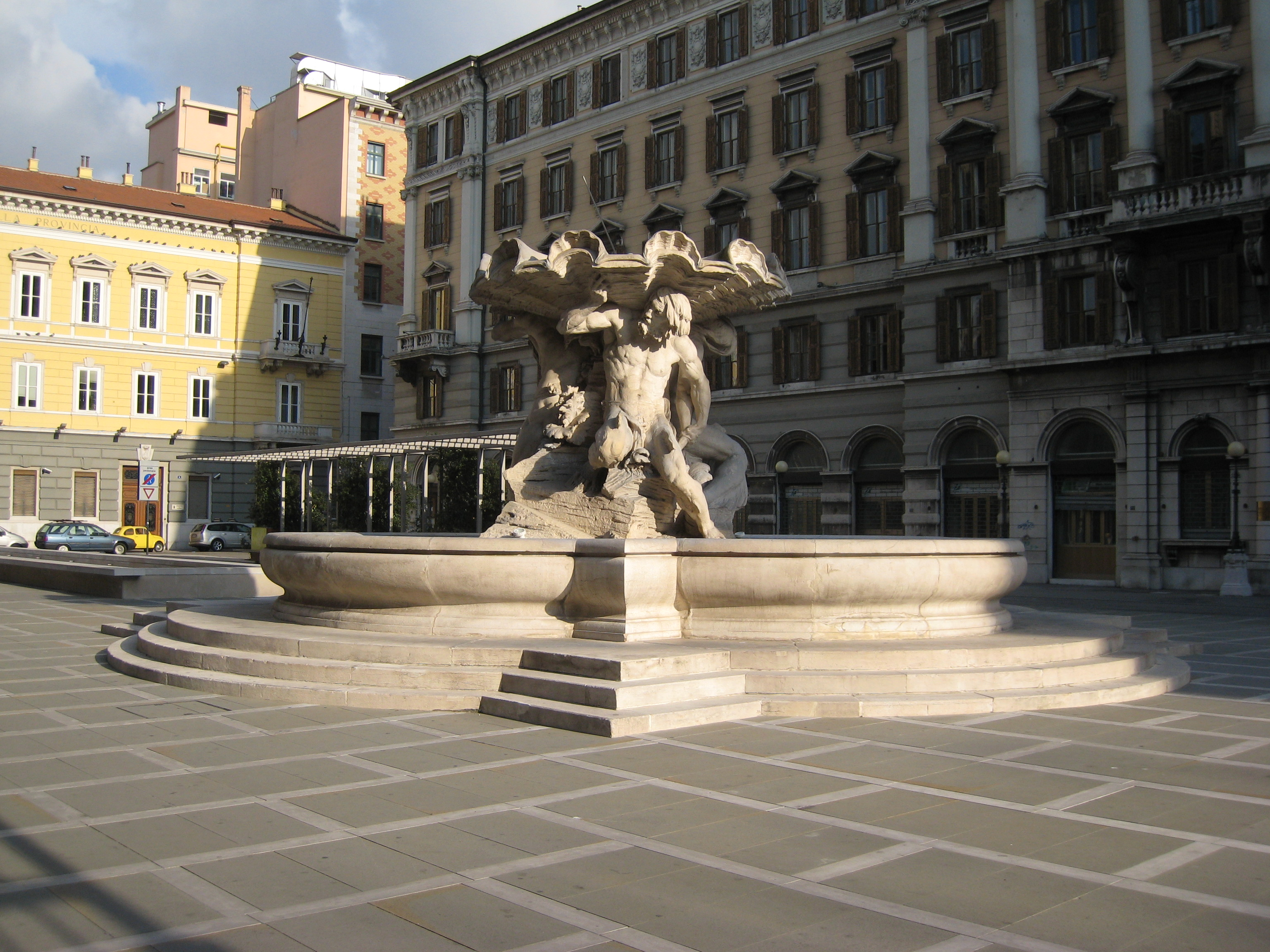 Italy - Trieste - Fountain in square Vittorio Veneto